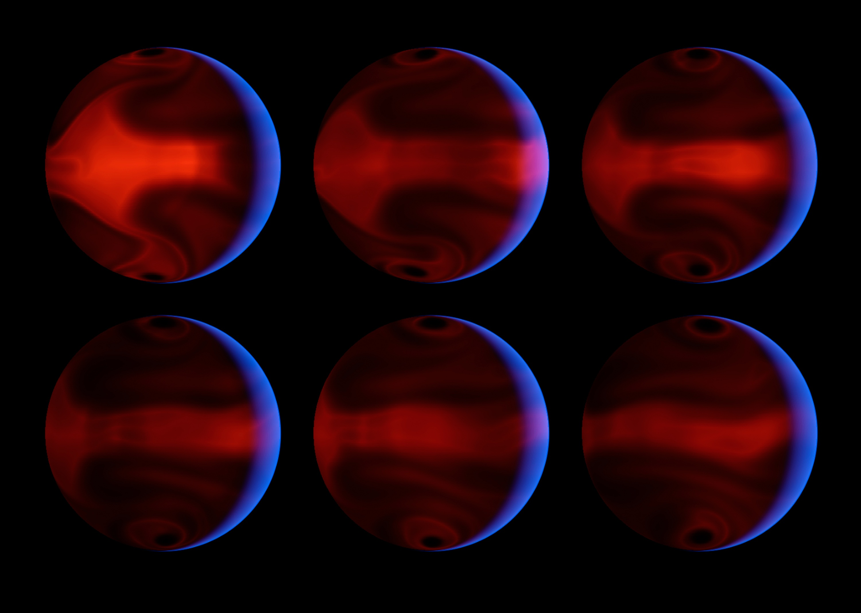 These computer-generated images chart the development of severe weather patterns on the highly eccentric exoplanet HD 80606b during the days after its closest approach to its parent star. An exoplanet is a planet that orbits a star other than our sun.